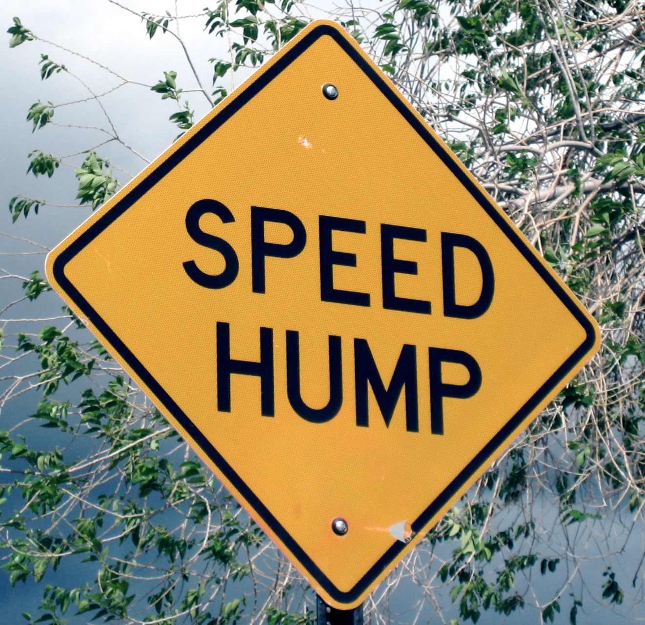 A "speed hump" sign in Sante Fe, New Mexico, by sanbeiji on Flickr [1], attribution required.